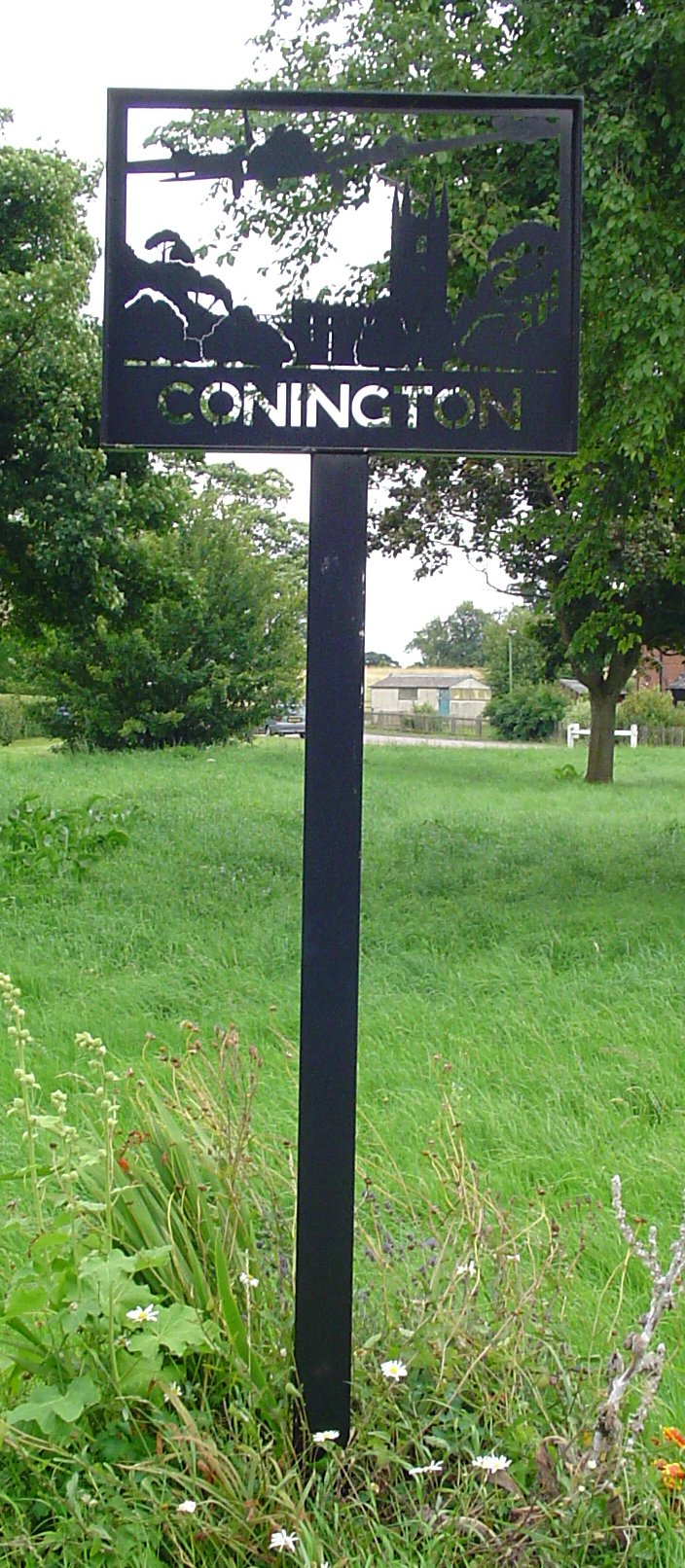 Signpost in Conington